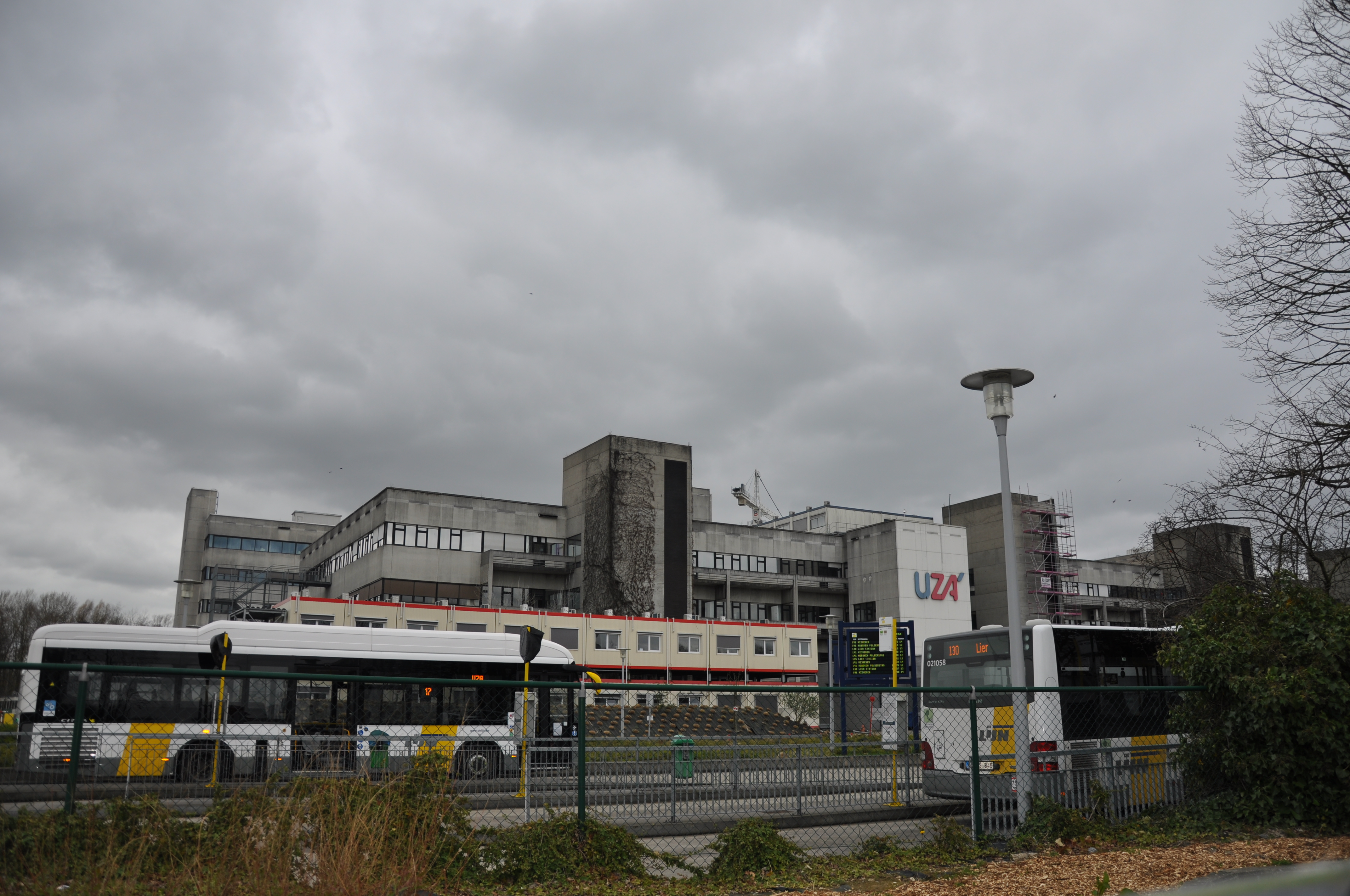 More info about the building of this container department for the (possible) COVID-19 patients, in Dutch (news articles)